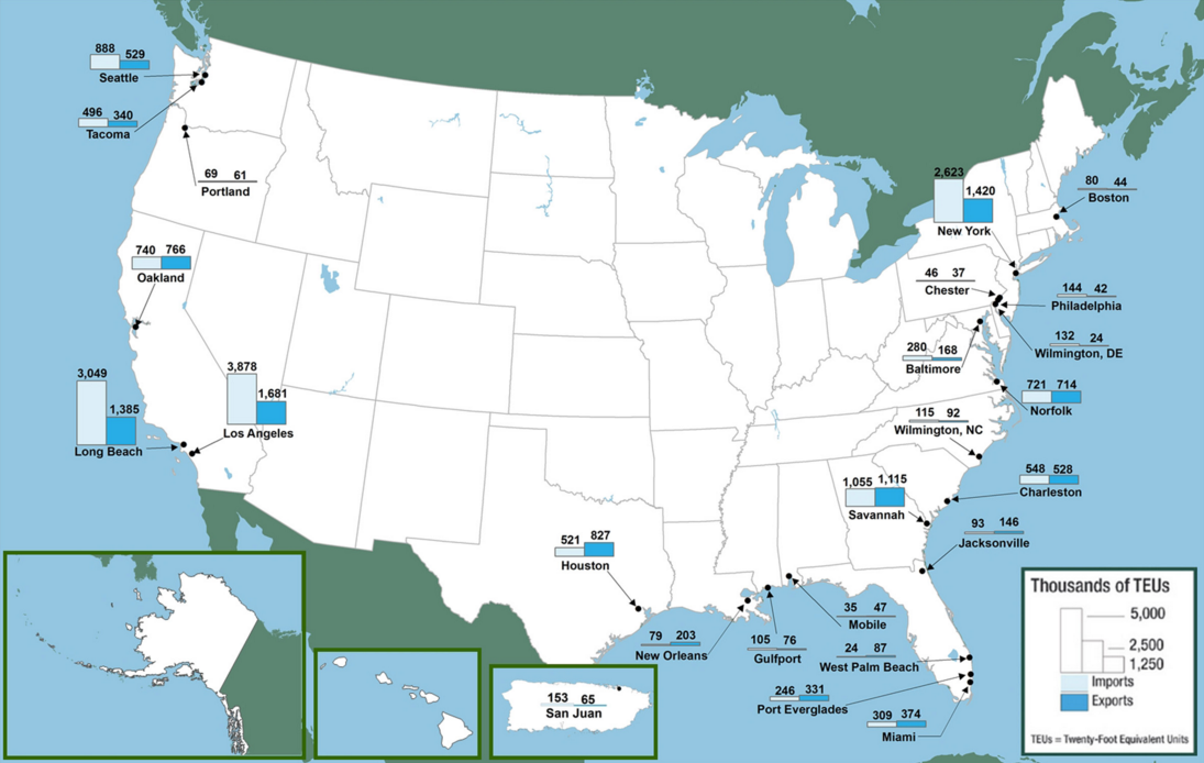 United States container ports by TEU throughput